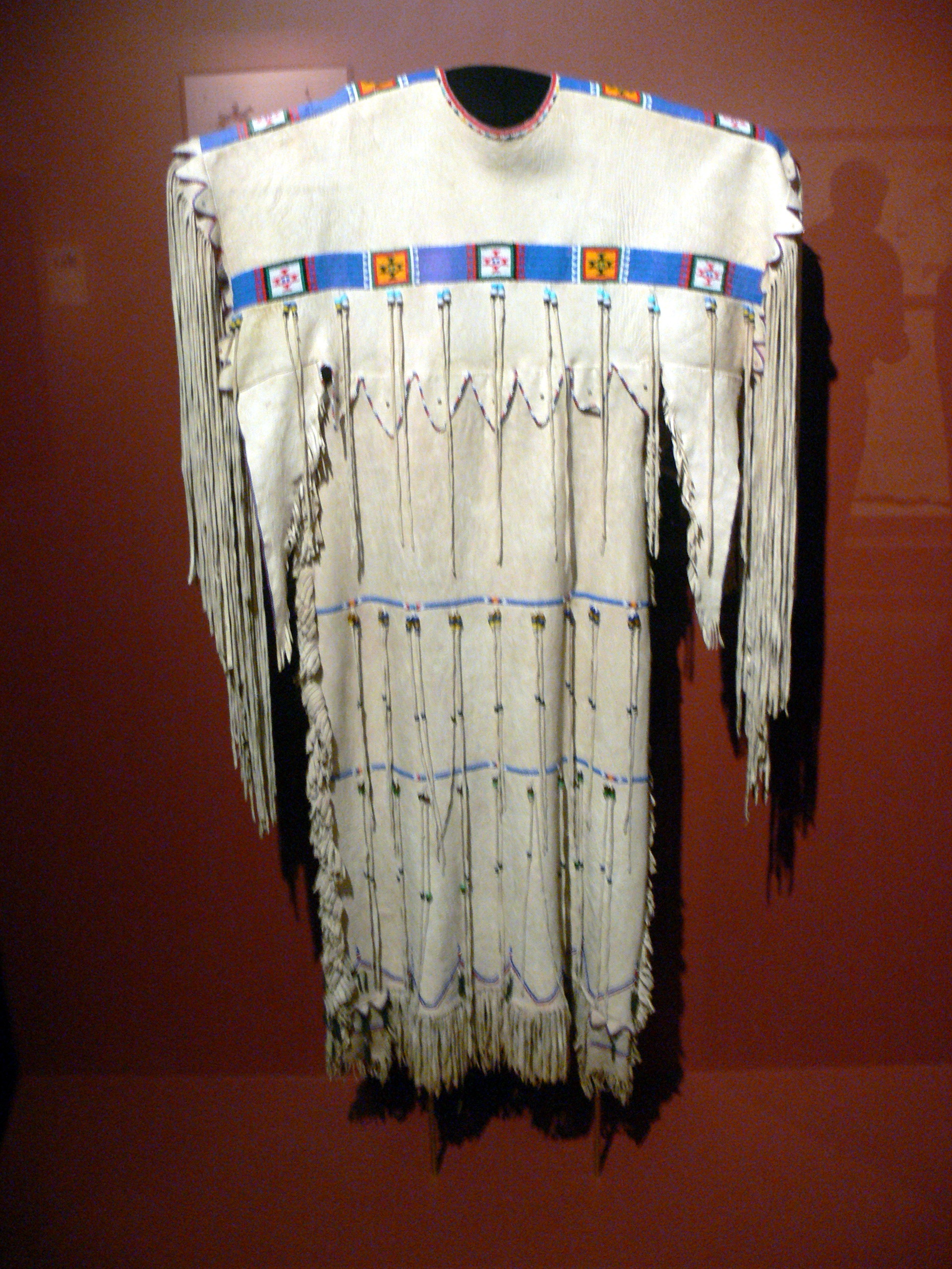 Tulsa, Oklahoma. Gilcrease Museum: Cheyenne beaded dress ( 1920 )